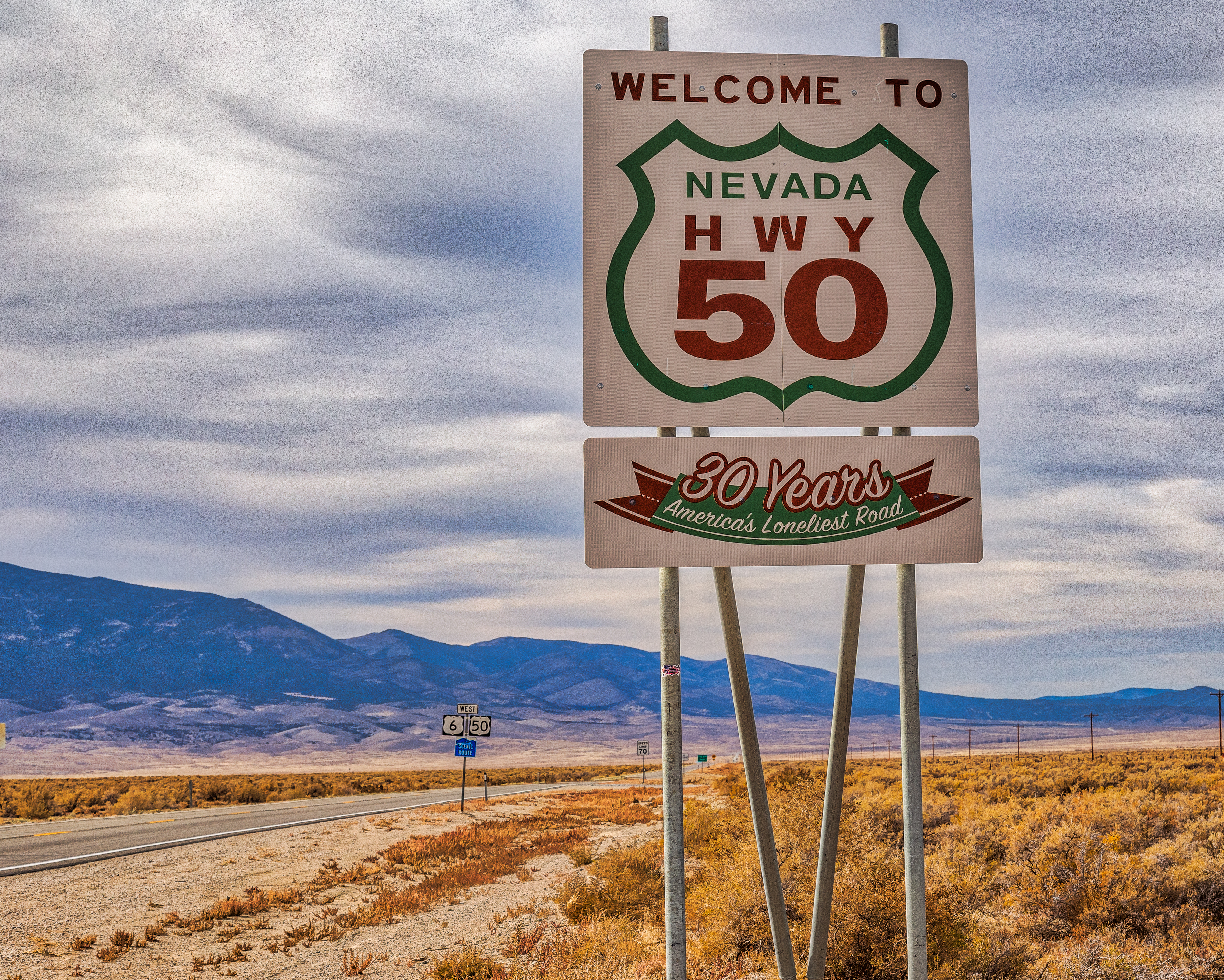 A welcome sign at the Nevada-Utah border on U.S. Route 50, nicknamed the "Loneliest Highway in America".